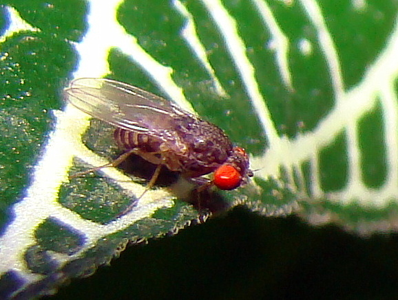 Red-eyed fruit fly Drosophila Hydei on a flower leaf of plant.